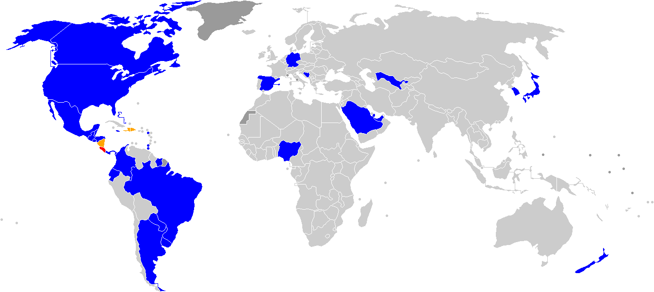 Map of the countries that have played at least one match against Costa Rica so far in the decade: Costa Rica Teams that have already faced Costa Rica Teams that have not faced Costa Rica during the decade, but are scheduled to do so in the future Non-FIFA team that has faced Costa Rica